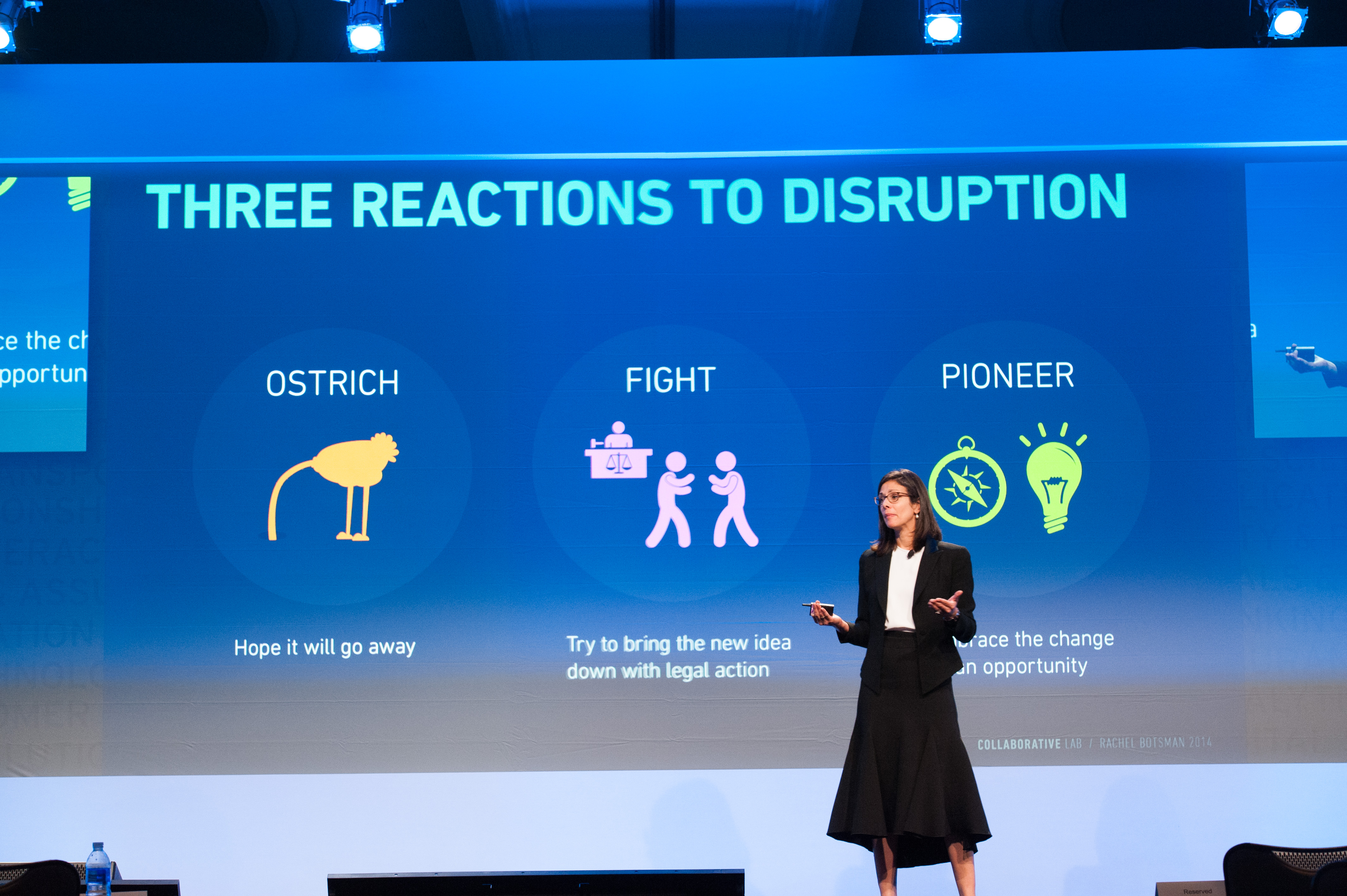 The Rise of the Collaborative Economy: Meet Your New Competition: Session by Rachel Botsman Social Innovator, Author and Global Collaborative Economy Specialist